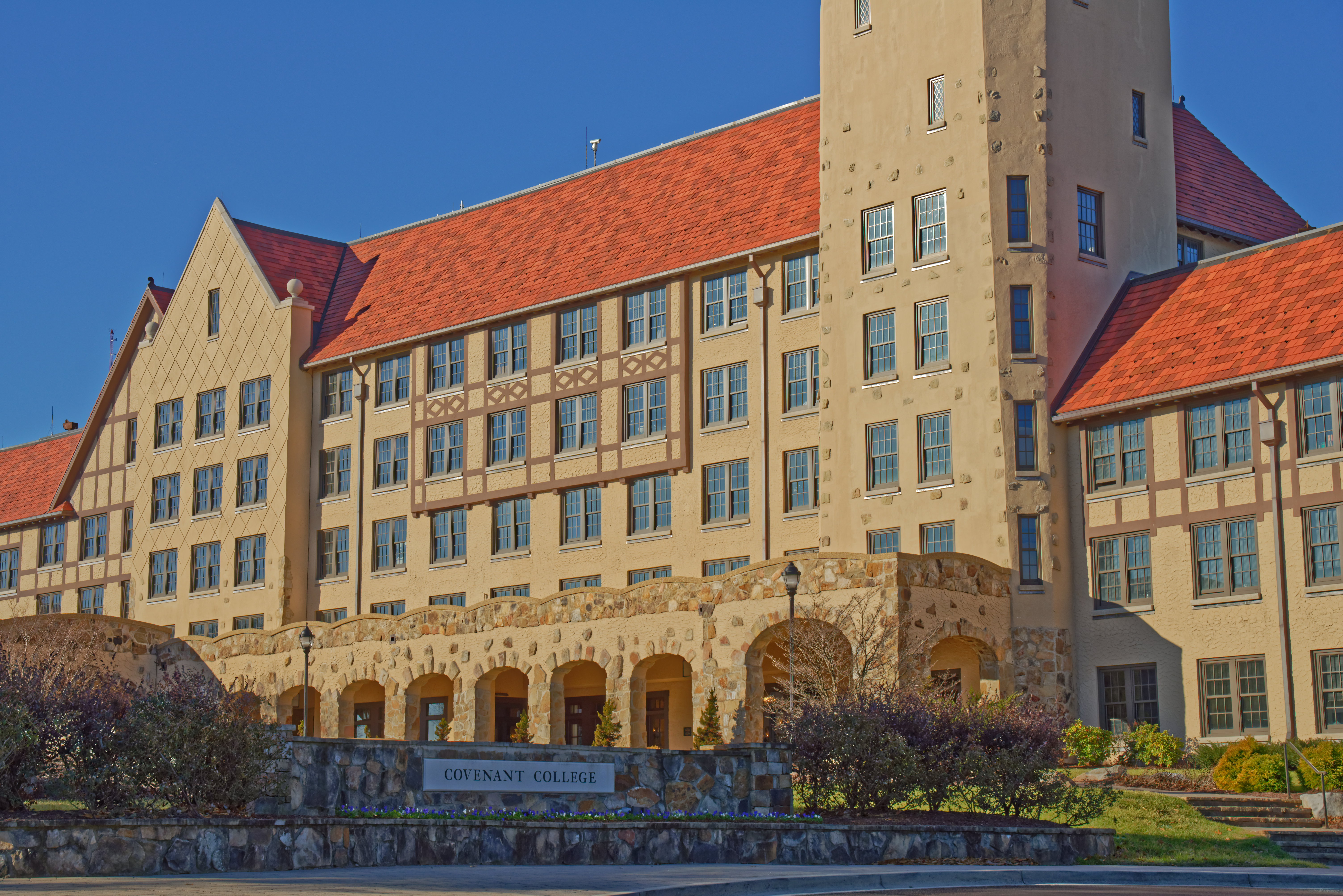 Covenant College, Lookout Mountain, Georgia, US. This building, now part of Covenant College, was originally the Lookout Mountain Hotel. This is a version of File:Lookout Mountain Hotel, Dade County, GA, US (16).jpg but the brightness and contrast have been adjusted to show the Covenant College sign (which was in shadow, whereas the building was in direct sunlight.